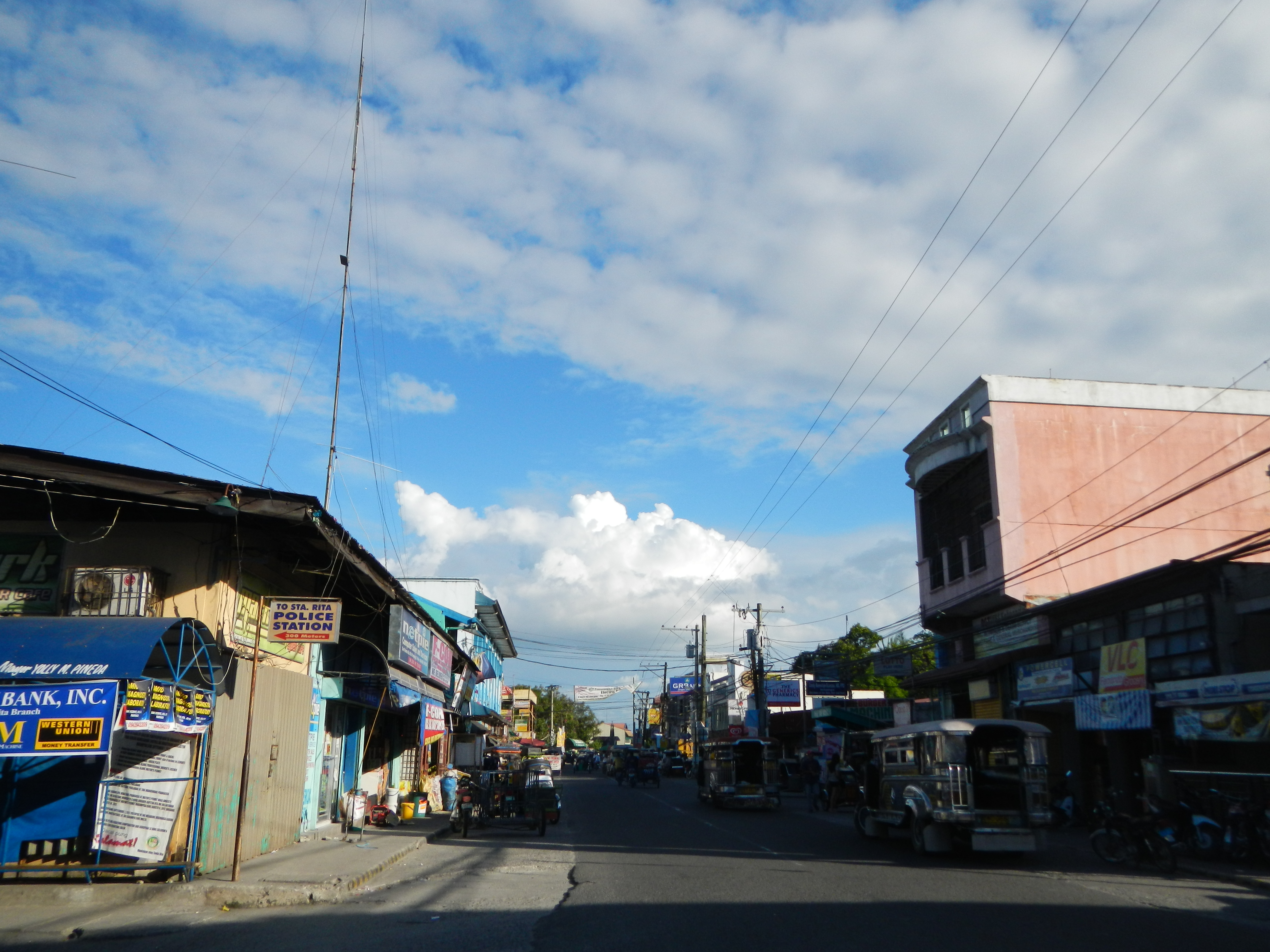 Santa Rita, Pampanga[1]